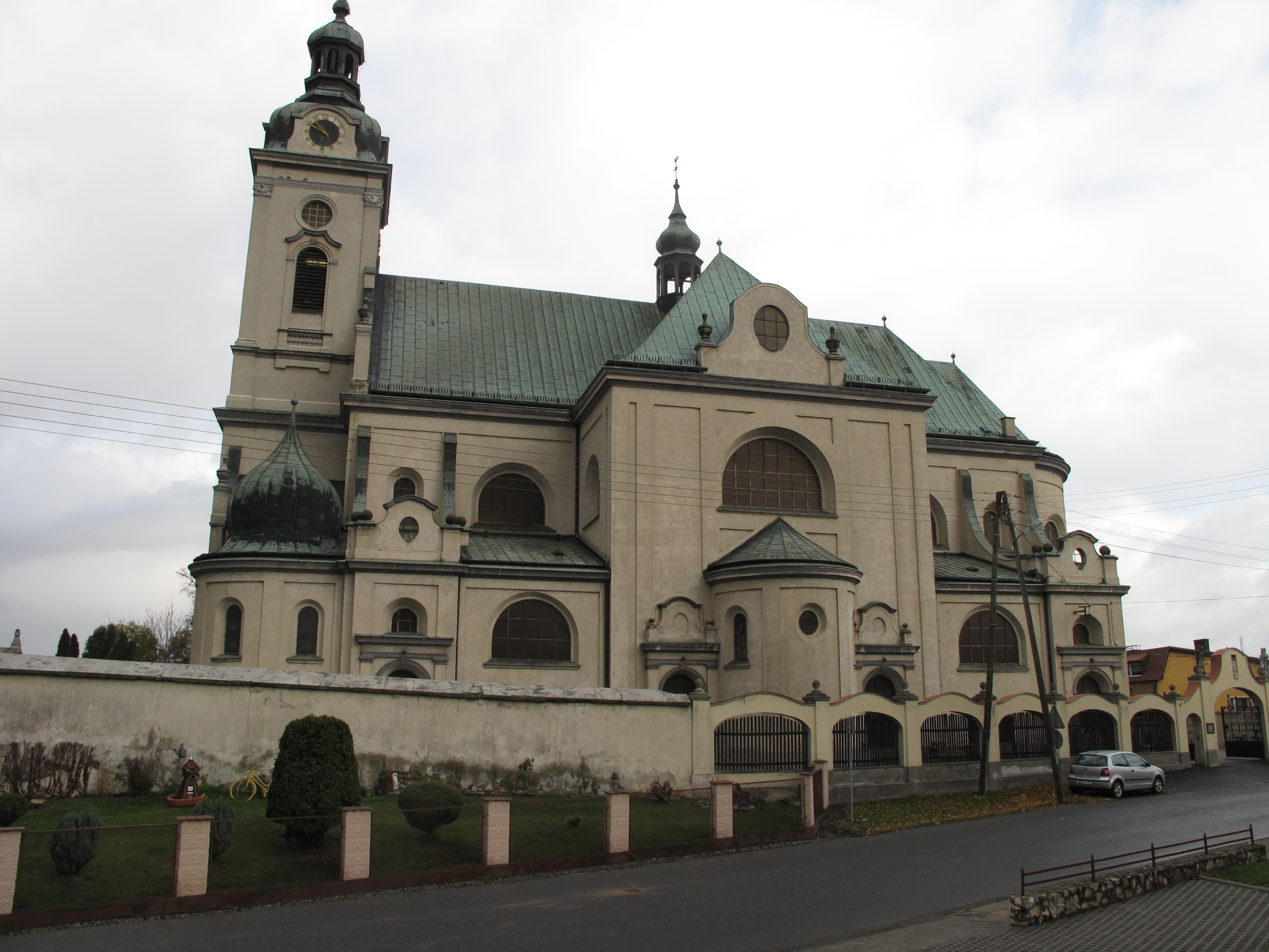 Krzanowice. Racibórz County, Poland.